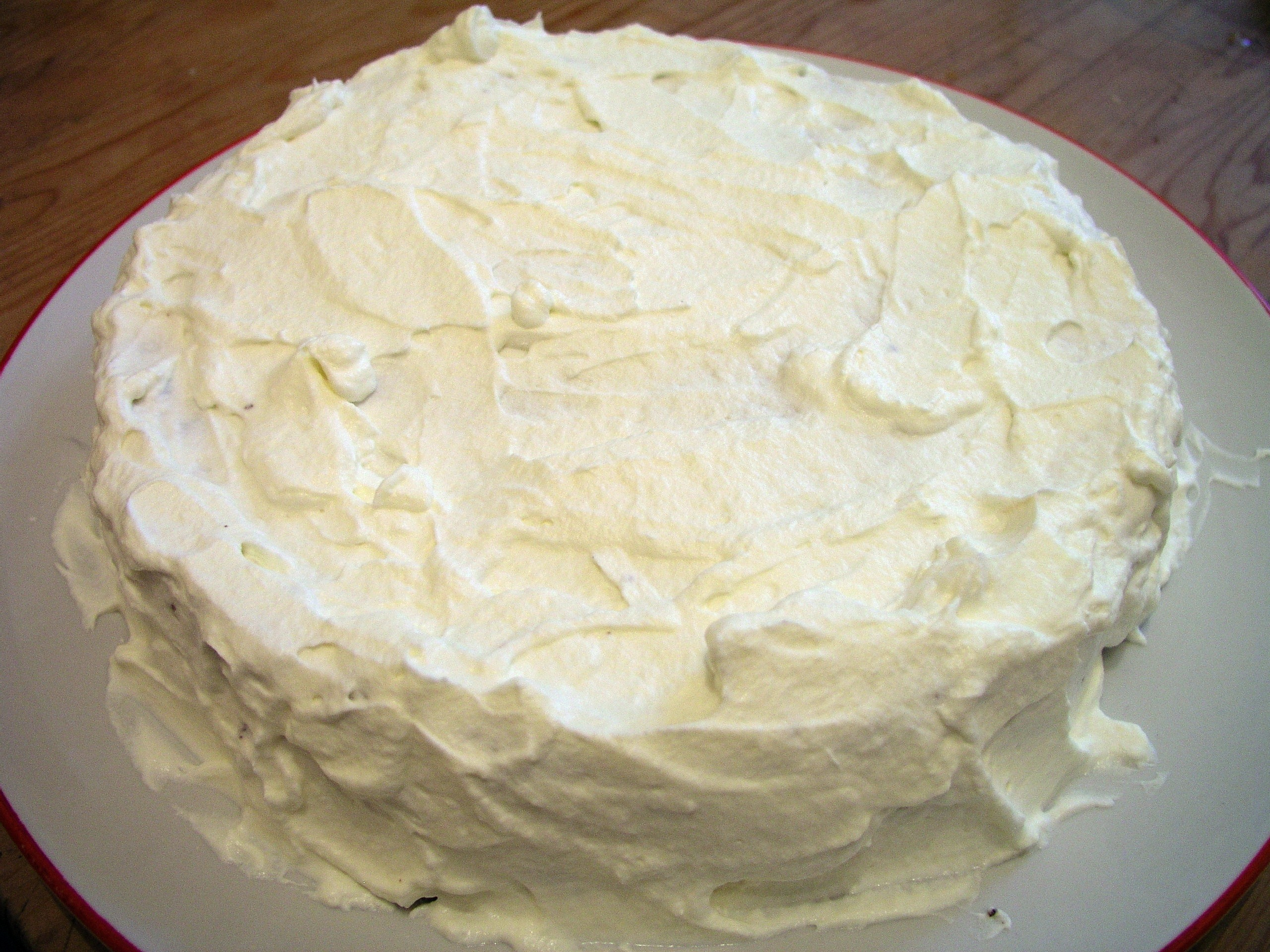 Layered cake with whipped cream, one Danish birthday cake (danish: lagkage)